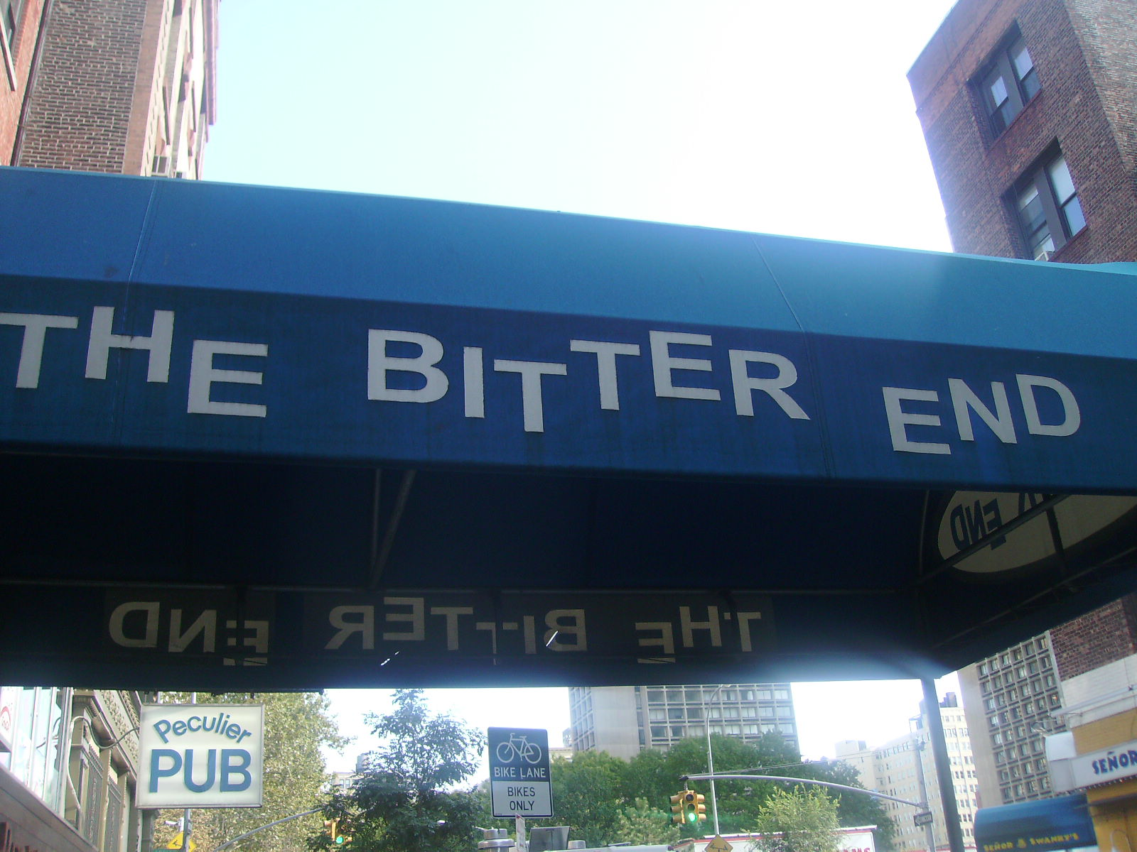 This photo is of Wikis Take Manhattan goal code F11, The Bitter End.